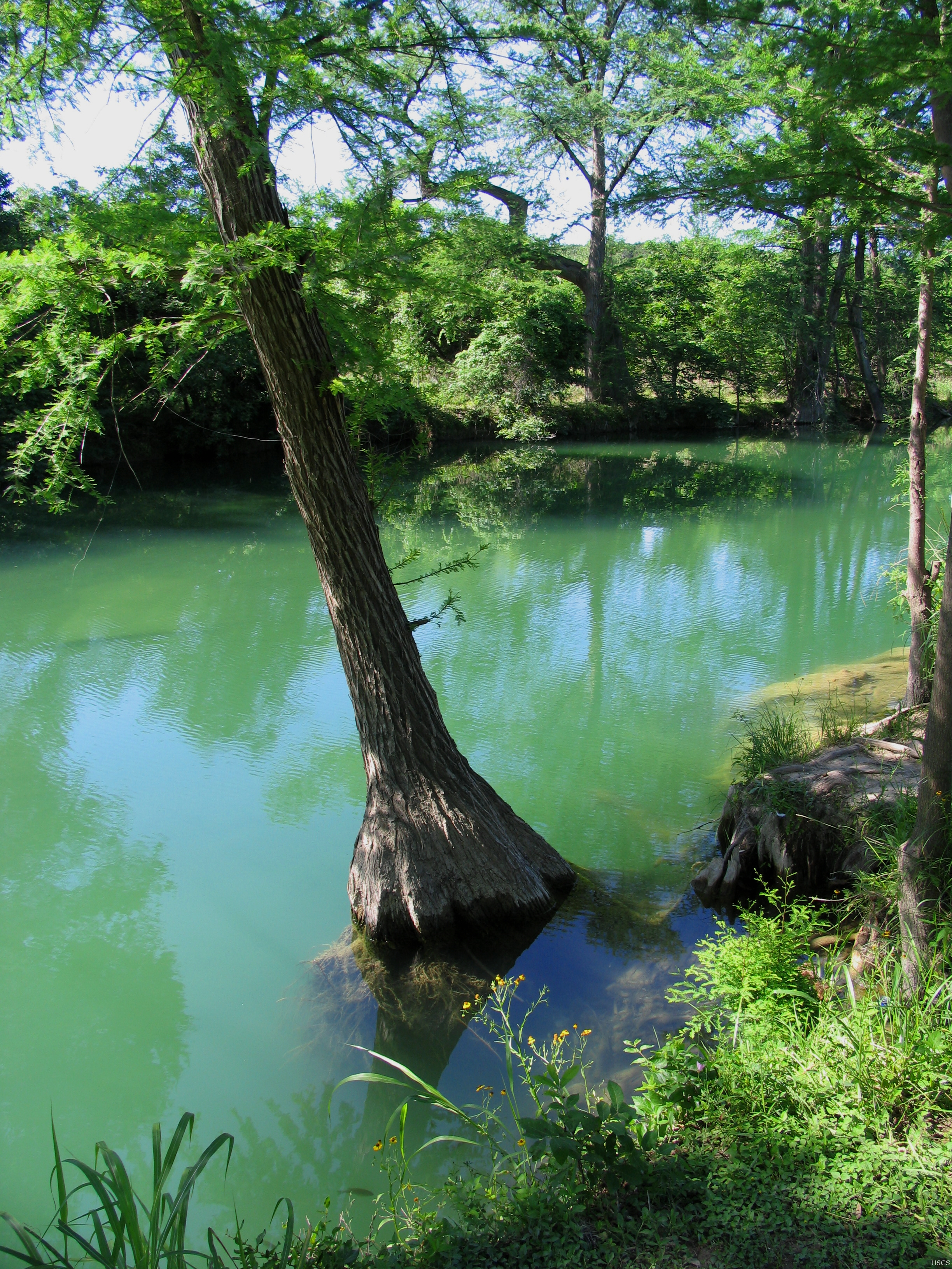 Baldcypress on the Medina River at Bandera Park, Bandera, Texas, USA